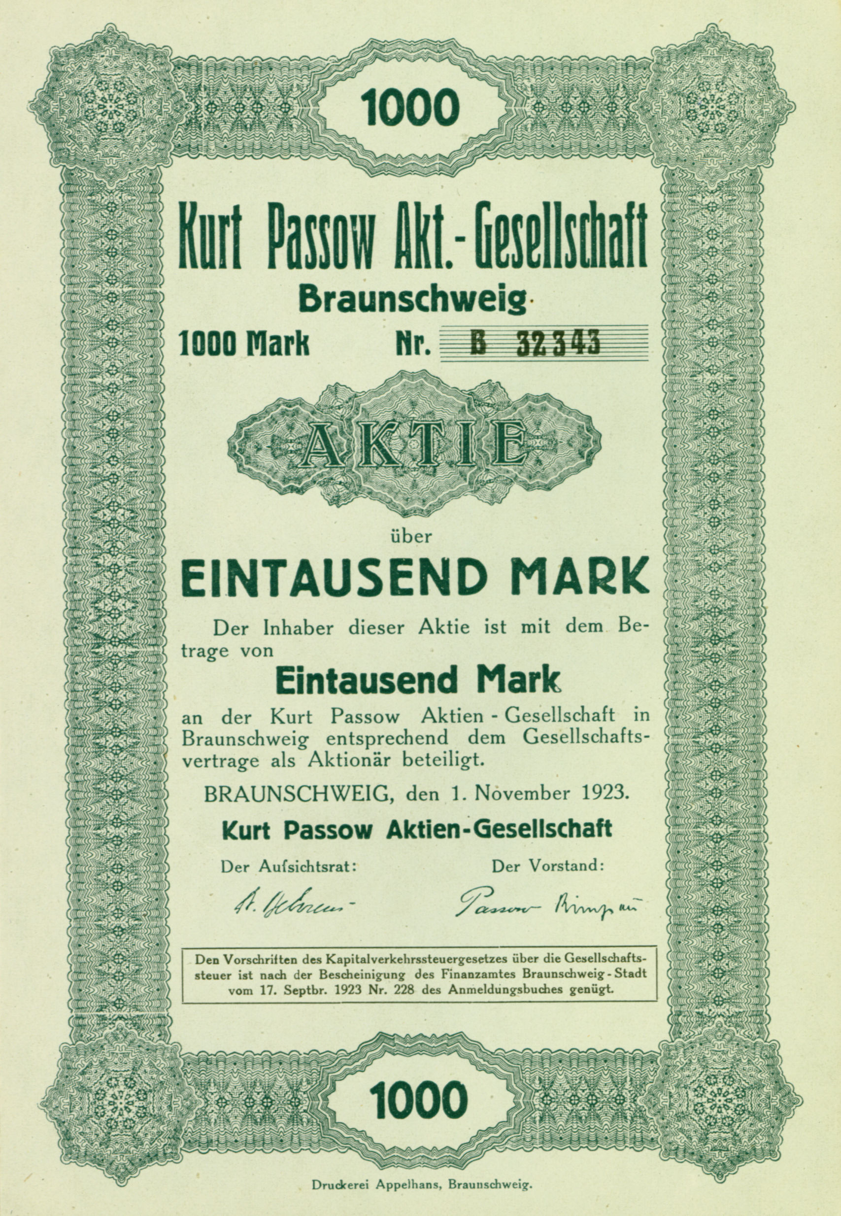 Share of the Kurt Passow AG, issued 1. November 1923